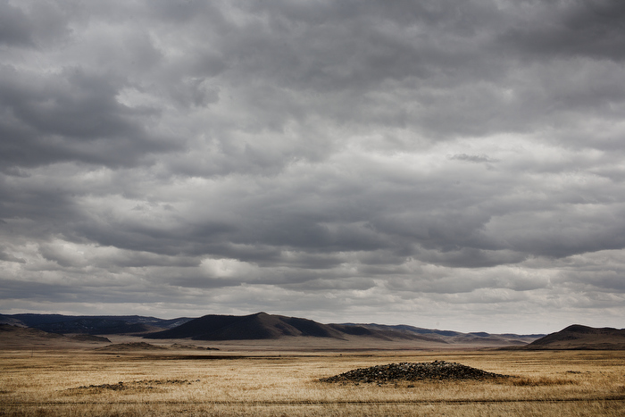 Burial mounds, which are large circular or square piles of rock, marked the graves of nobility in the late Bronze and early Iron Ages. Many have since been looted by grave robbers.